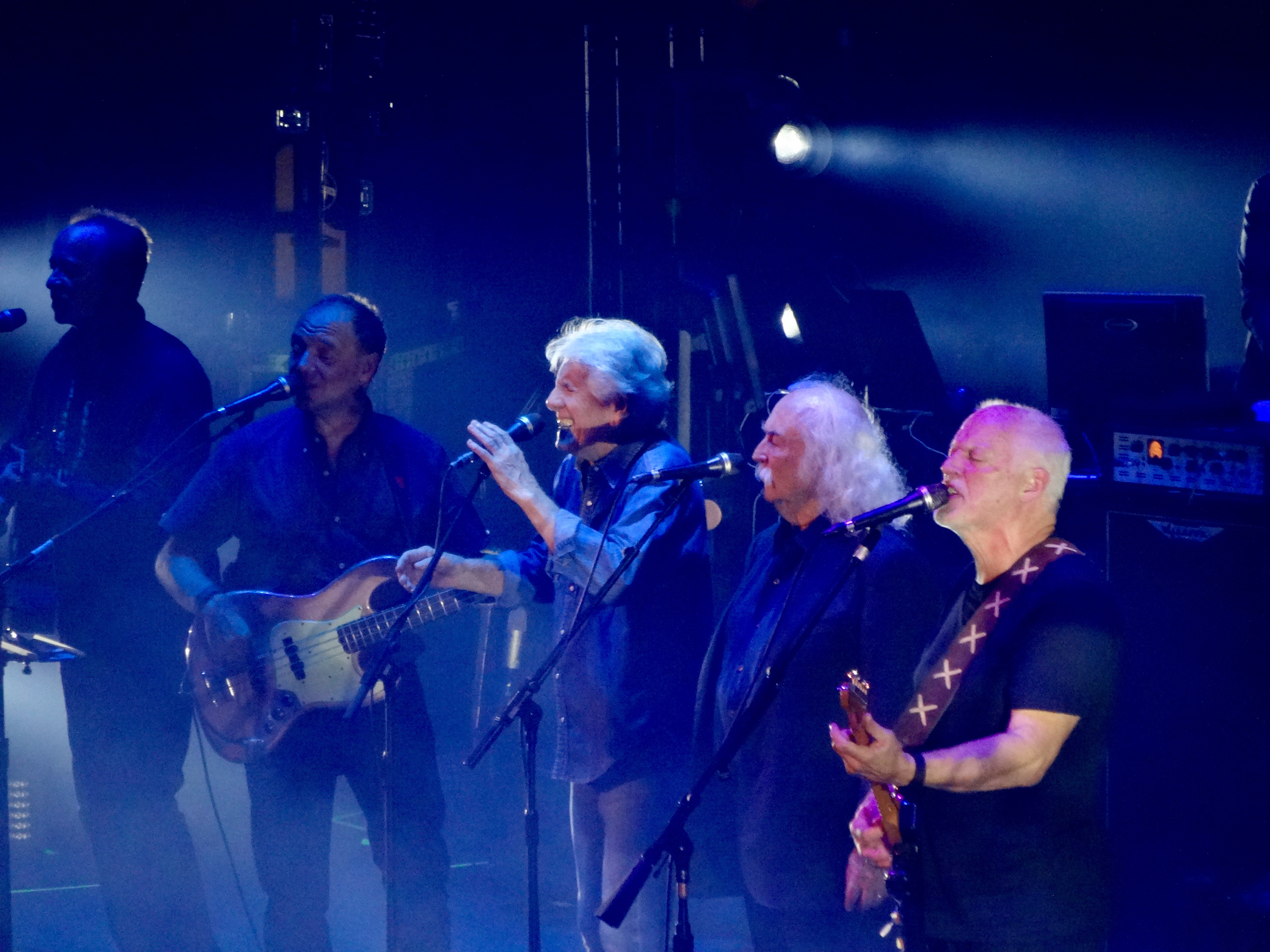 Crosby, Nash & Gilmour